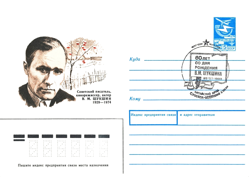 1989 Soviet postal cover featuring portrait.